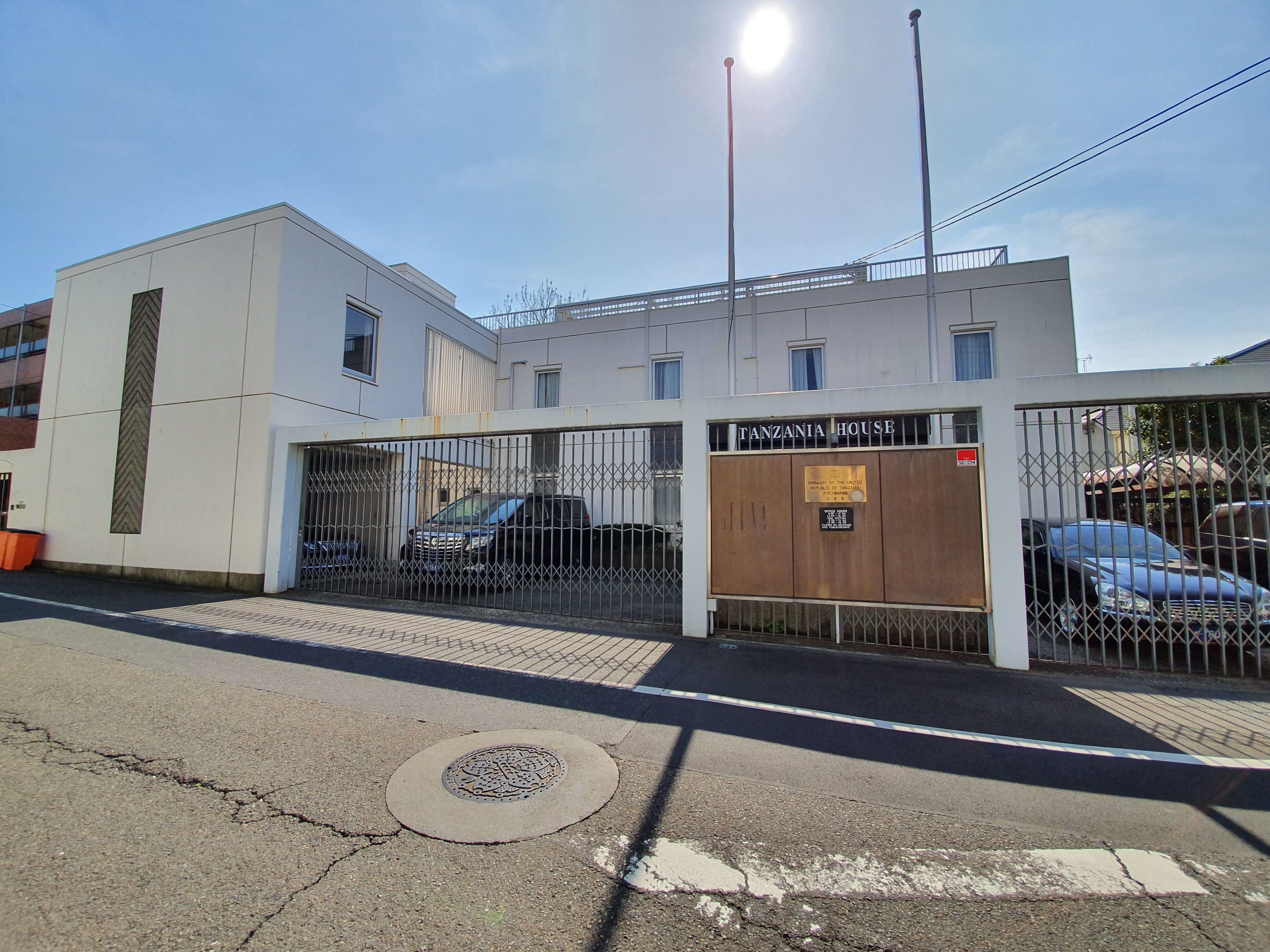 Embassy of Tanzania in Tokyo, Japan. Tanzania House